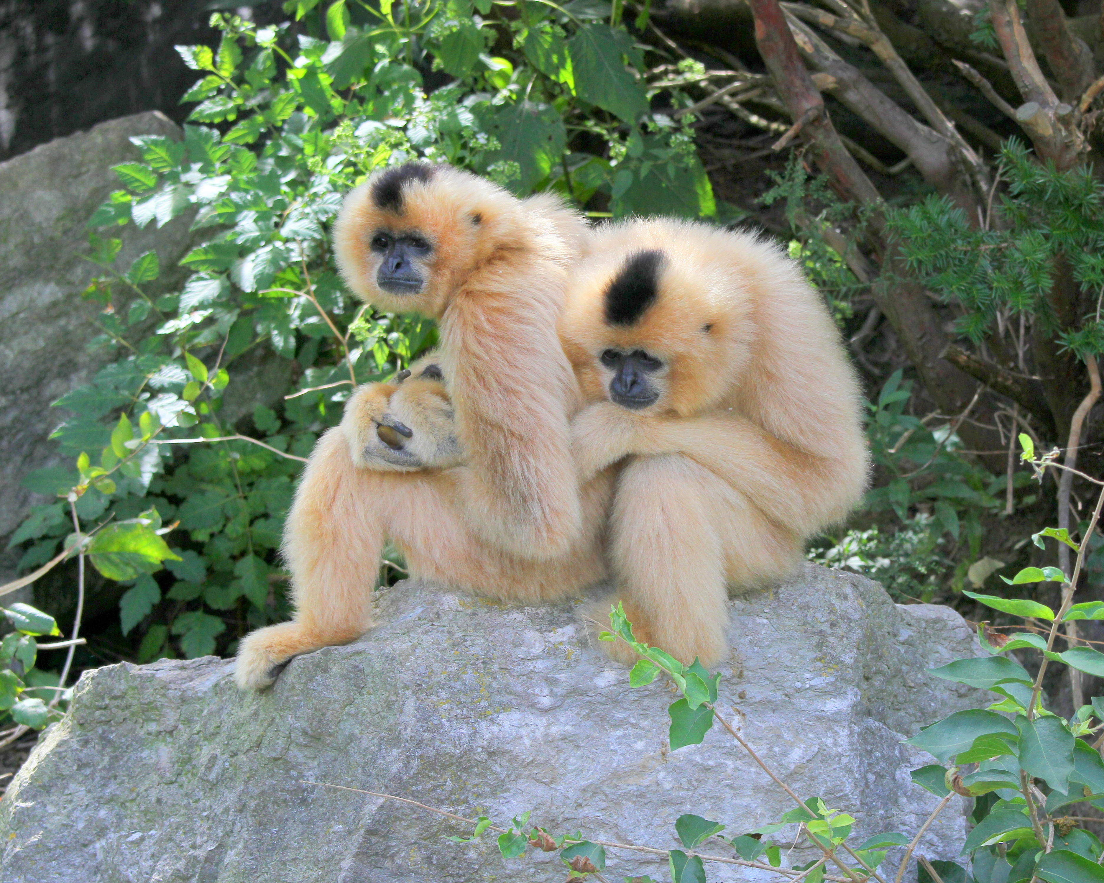 Two adult female Nomascus gabriellae at the Cincinnati Zoo